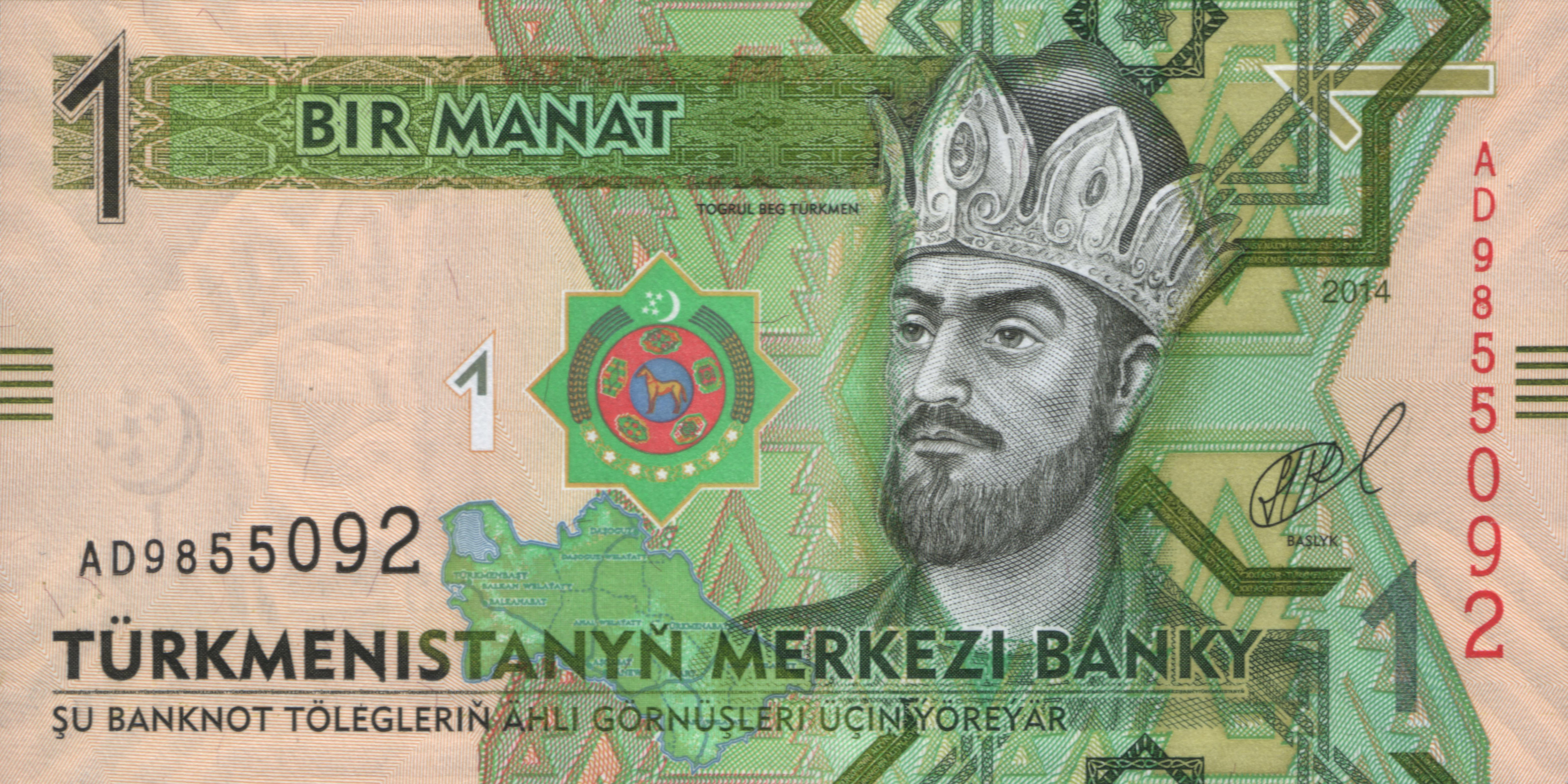 1 manat of Turkmenistan (2014)